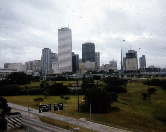 Photograph taken of Downtown Houston in June of 1971, showing newly constructed One Shell Plaza as the tallest building.